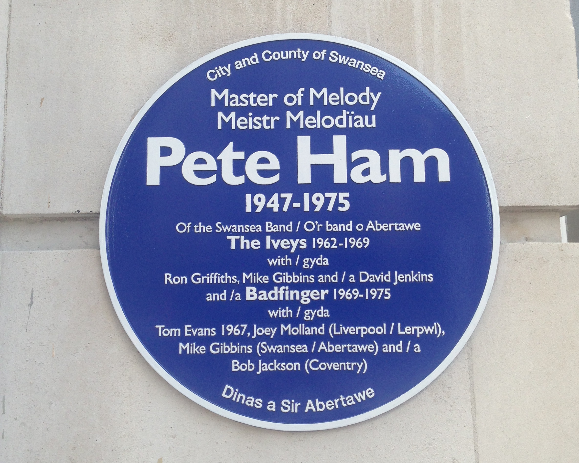 Blue Plaque commemorating Pete Ham, of the bands 'The Iveys' and 'Badfinger', in Swansea, Wales